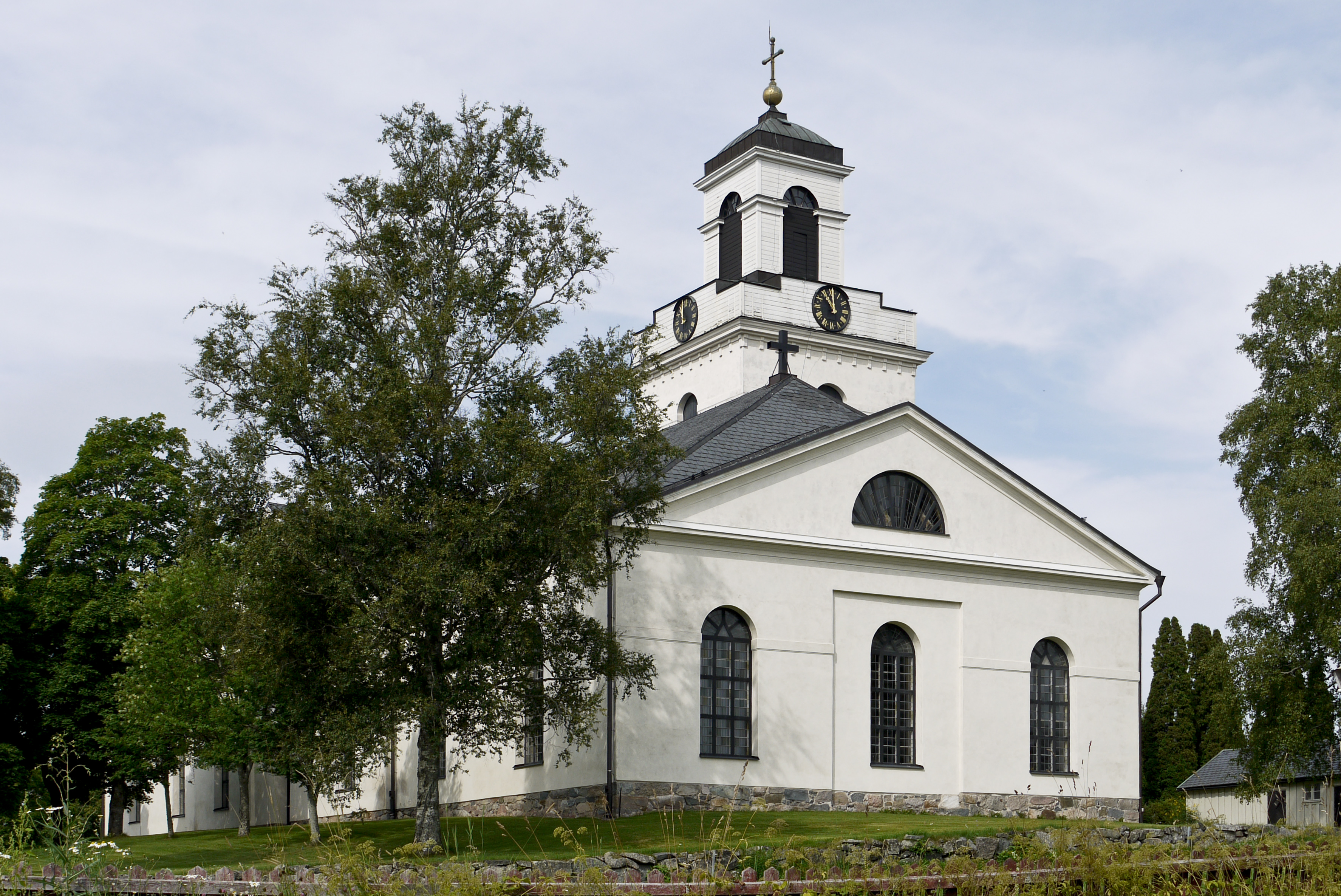 Bjursås kyrka/church. Diocese of Västerås, Falu kommun, Sweden. Main view.